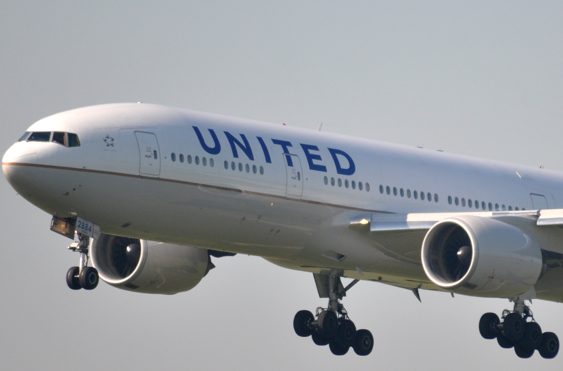 The PW4000 Engine powers the Boeing 777